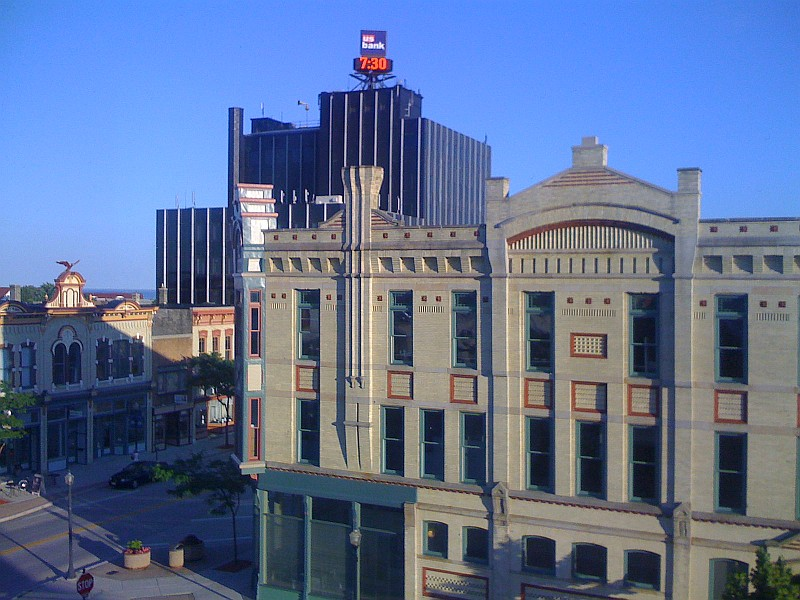 iPhone camera picture of downtown Sheboygan, Wisconsin, looking at N 8th Street and the US Bank building, taken from the top floor reading room of Mead Public Library.